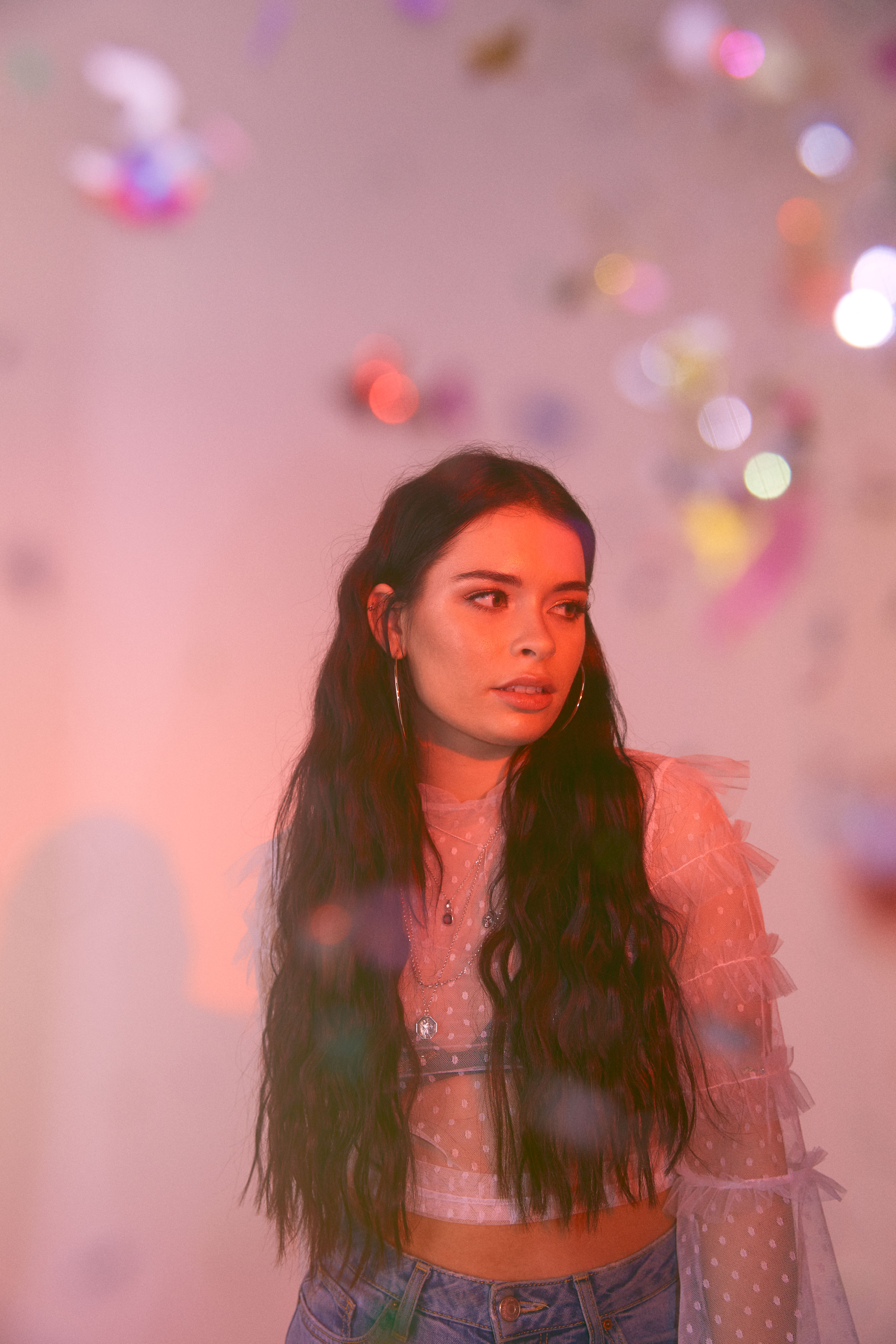 Liv Dawson